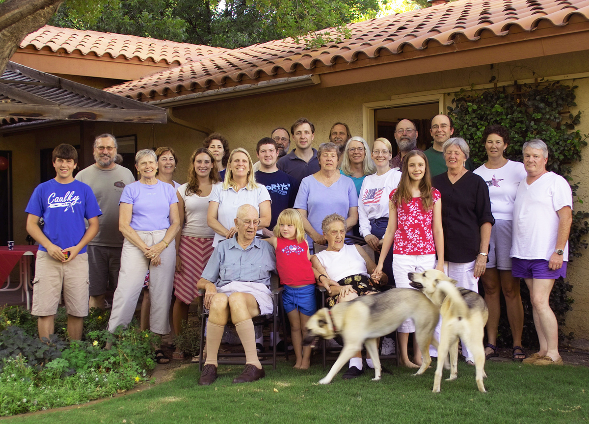 Larned B. Asprey and Marge Williams Asprey with their family, at their home in Las Cruces, NM, at the 2004 celebration of their 60th wedding anniversary.